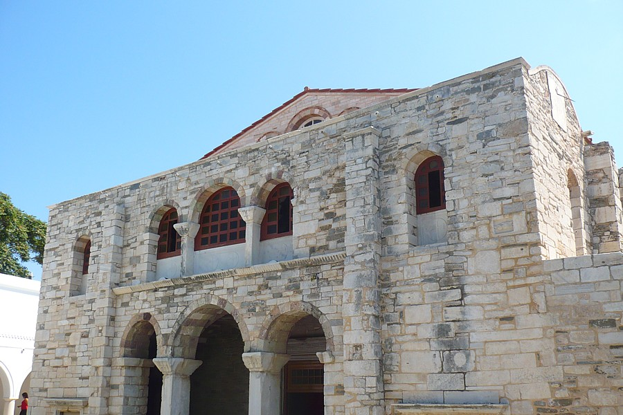 Panagia Ekantotapyliani